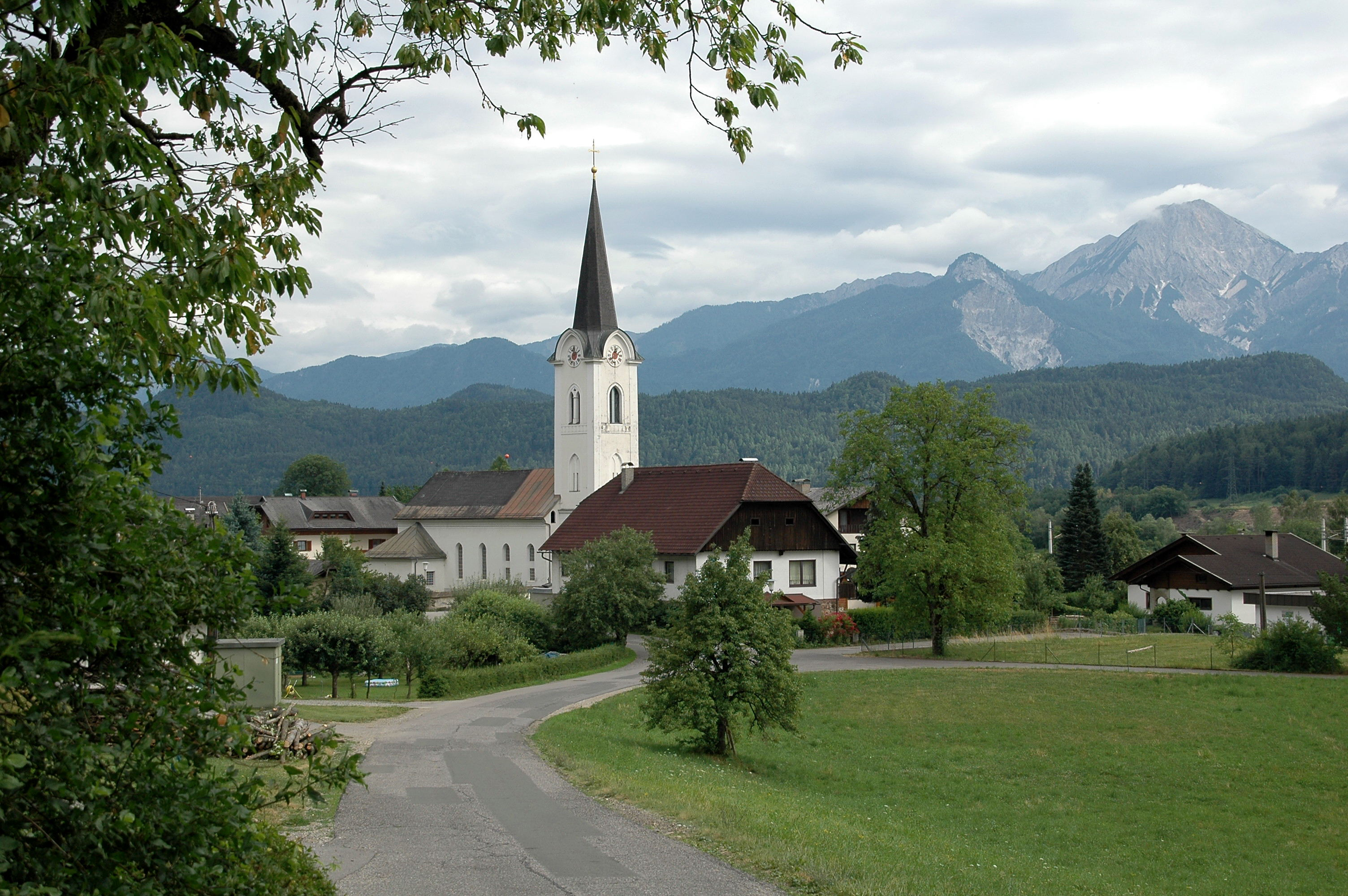 Parish church Saint Margaret in Gottestal, municipality Wernberg, district Villach Land, Carinthia, Austria, EU